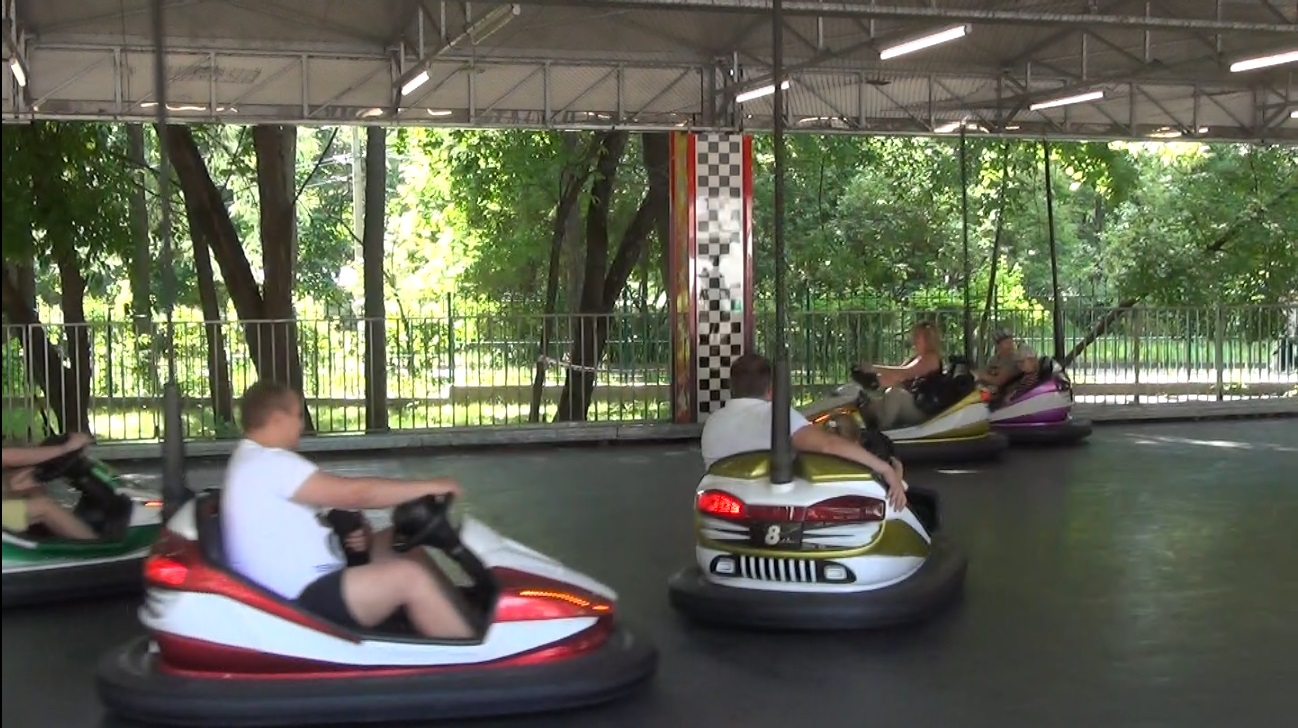 «День России» в Москве 2015 год